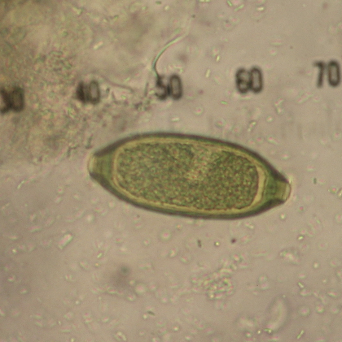 Trichuris sp egg collected in stool.